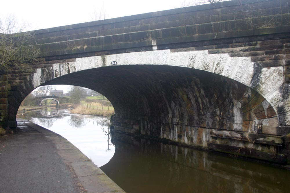 Equilibrated skew arch bridge carrying the Bolton and Preston Railway over the Leeds and Liverpool Canal. Built in 1838 by Alexander James Adie to a logarithmic pattern proposed by mathematician Edward Sang three years earlier, the stone work is laid out very differently from the usual English helicoidal method. General view.